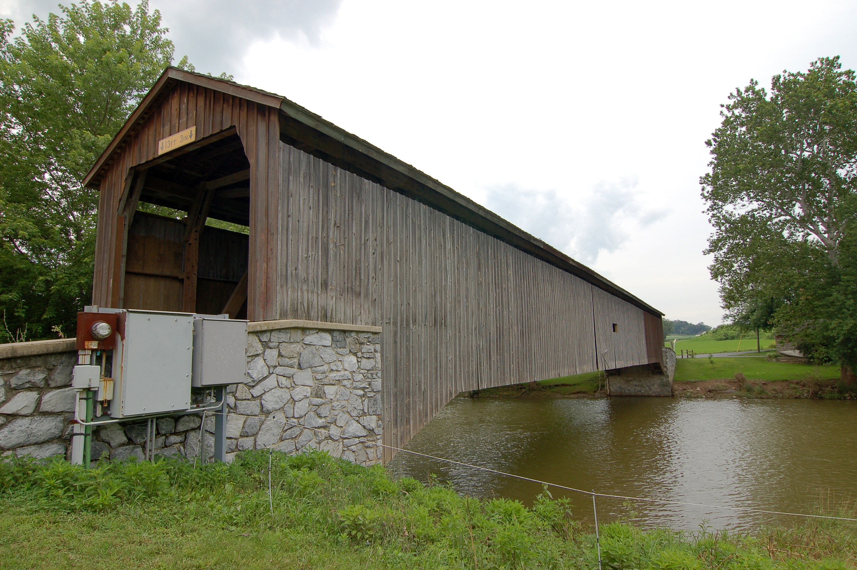 A photograph of the Hunsecker's Mill Covered Bridge showing a three quarters view. The bridge is located in Lancaster County, Pennsylvania.